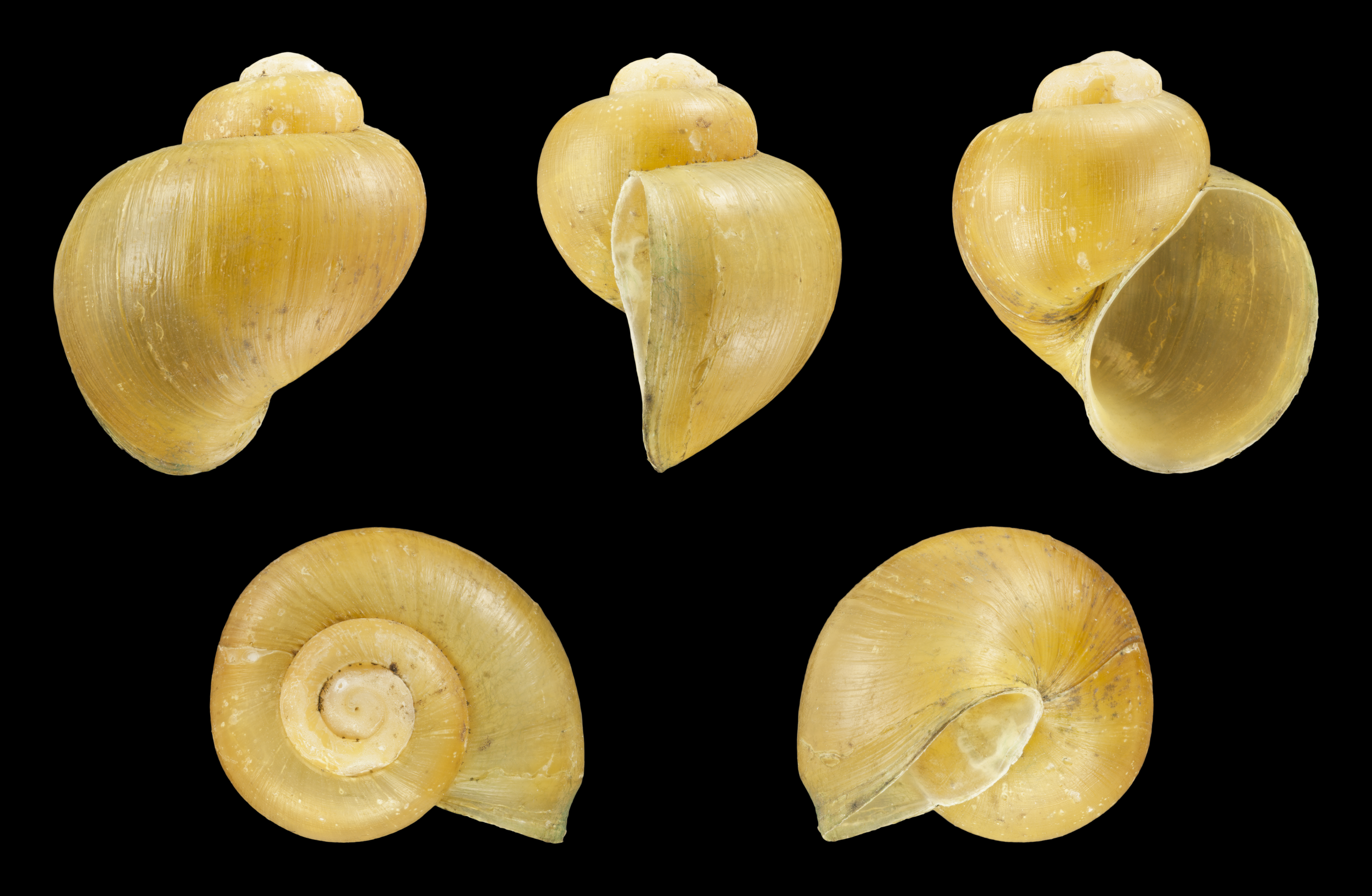 Pomacea diffusa Blume, 1957, Spike-topped Apple Snail, unicoloured form; Length 2.3 cm; Aquarium breeding; Natural distribution: Amazon Basin. Shell of own collection, therefore not geocoded.